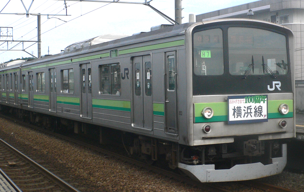 A JNR 205 series train (Train H7) with a head mark celebrating 100th Anniversary of Yokohama Line